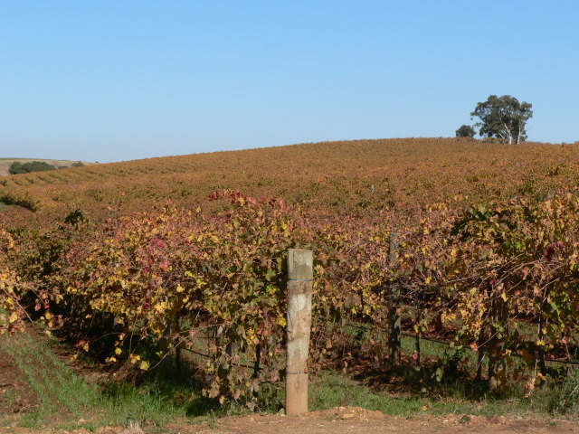 Gomersal vineyards in late autumn